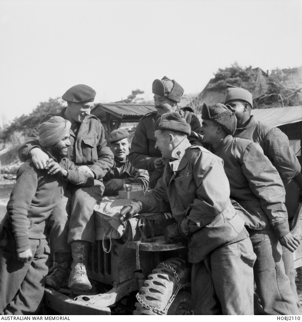 An example of United Nations cooperation. At extreme left and right are Indian volunteers with the 60th Indian Field Ambulance in Korea. Between them are British, New Zealand and Australian soldiers. On the bonnet of the jeep is a mess tin which suggests that they are about to enjoy a cup of brew together. Note the Indian (left) is wearing a turban, and the soldier next to him has boots with clips up the front. Korea. c. March 1951.